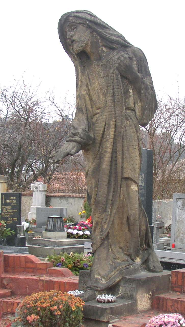 Statue of Christ by František Bílek (1909) at Roman-Catholic cemetery in town of Libčice nad Vltavou, Prague-West District, Czech Republic.